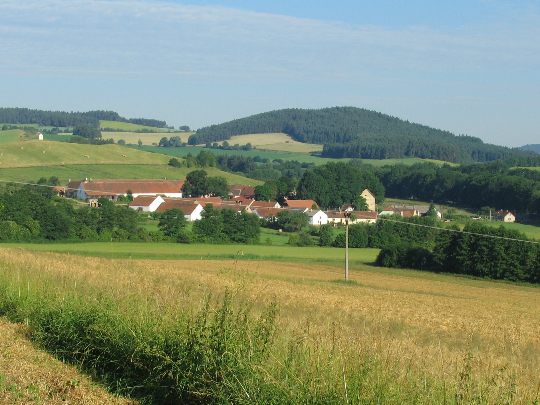 A view of Ohrazenice nearly from the east, Strakonice District, Czech Republic